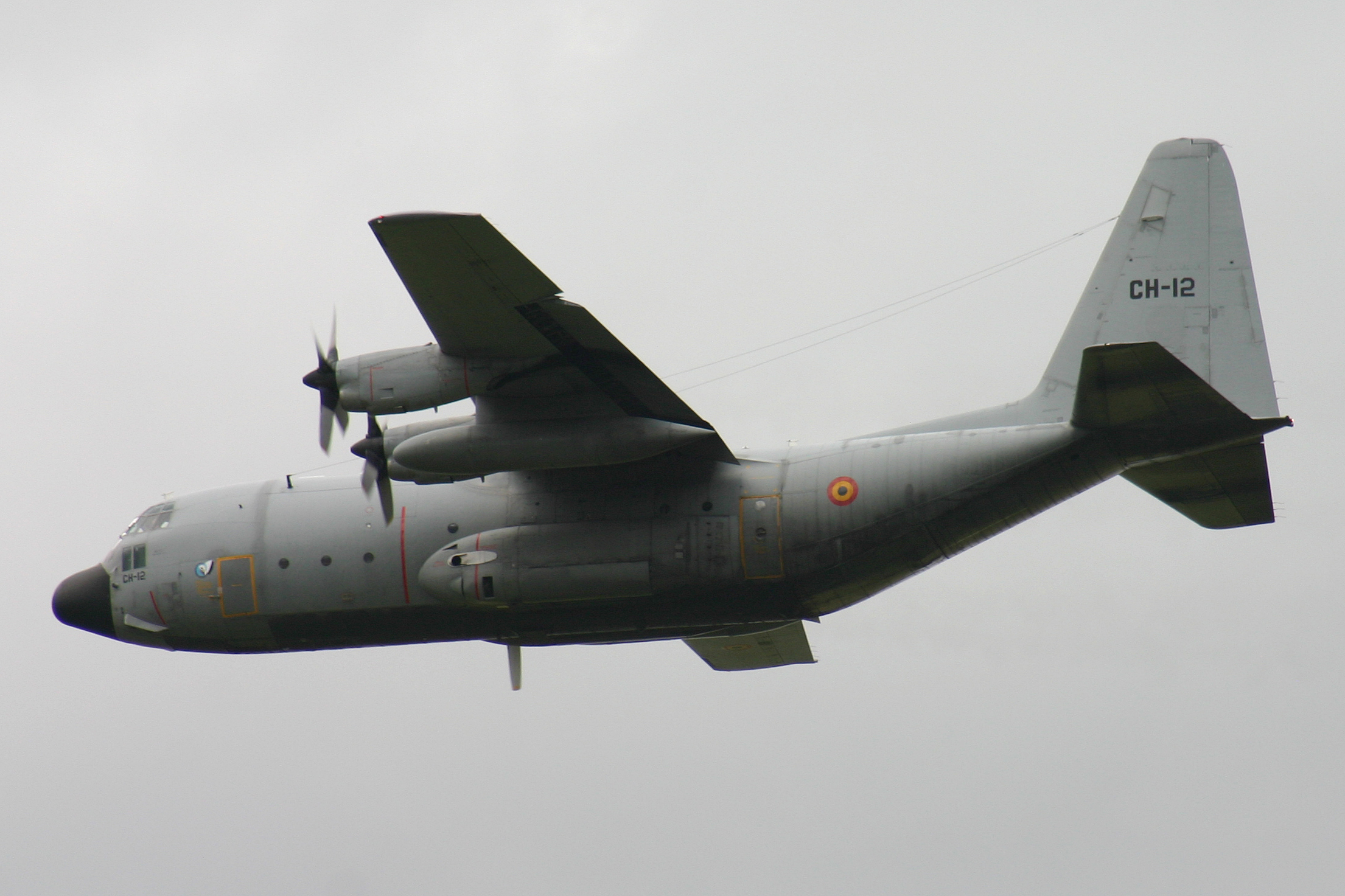 Always impressive on a fast pass! Operated by 20Sm, 15Wg, Belgian AF. Allocated US military serial 71-1808. c/n 4483. 2011 Koksijde Airshow, Belgium. 07-07-2011